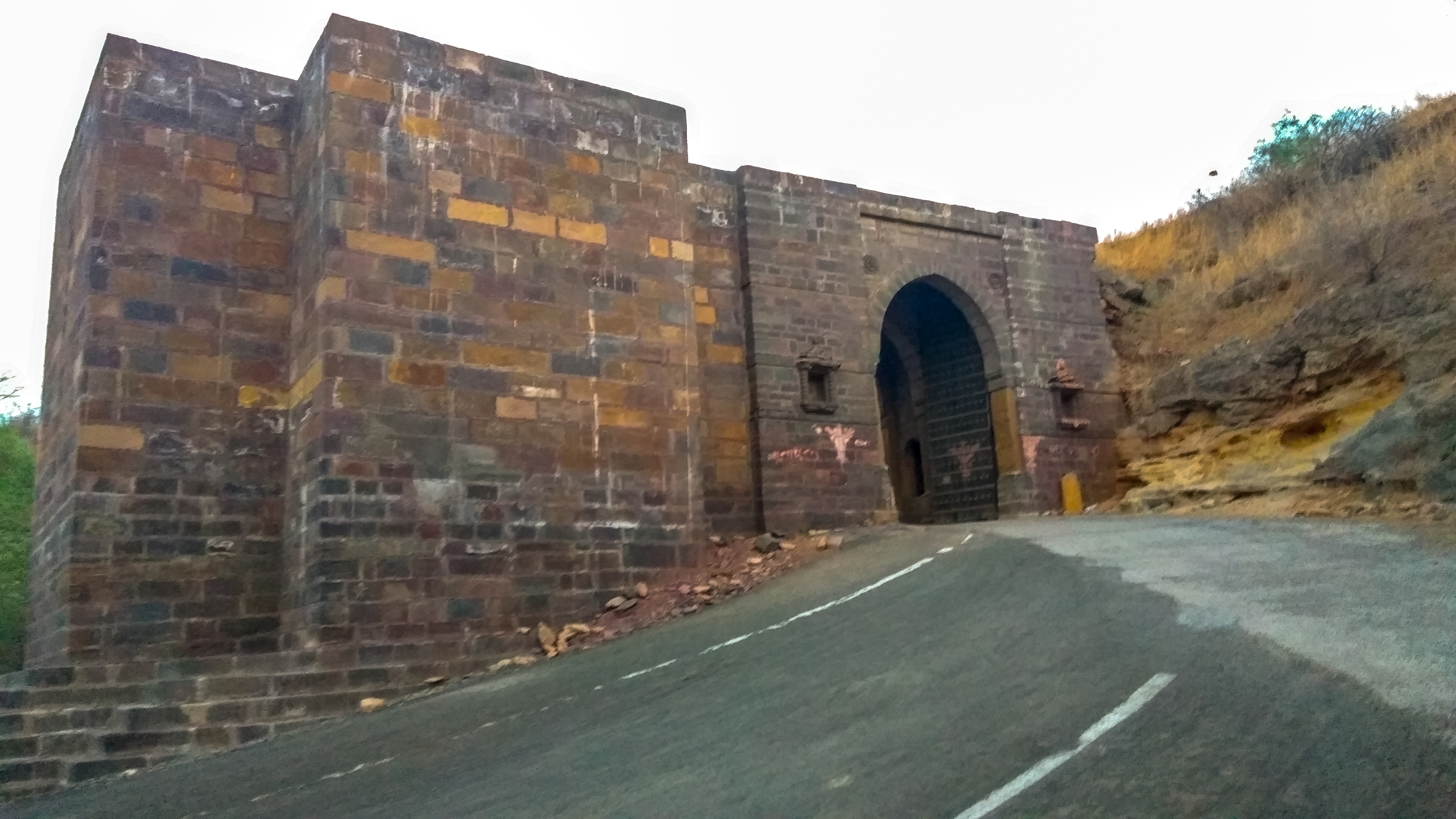 Kanthkot Fort Entrance Gate..